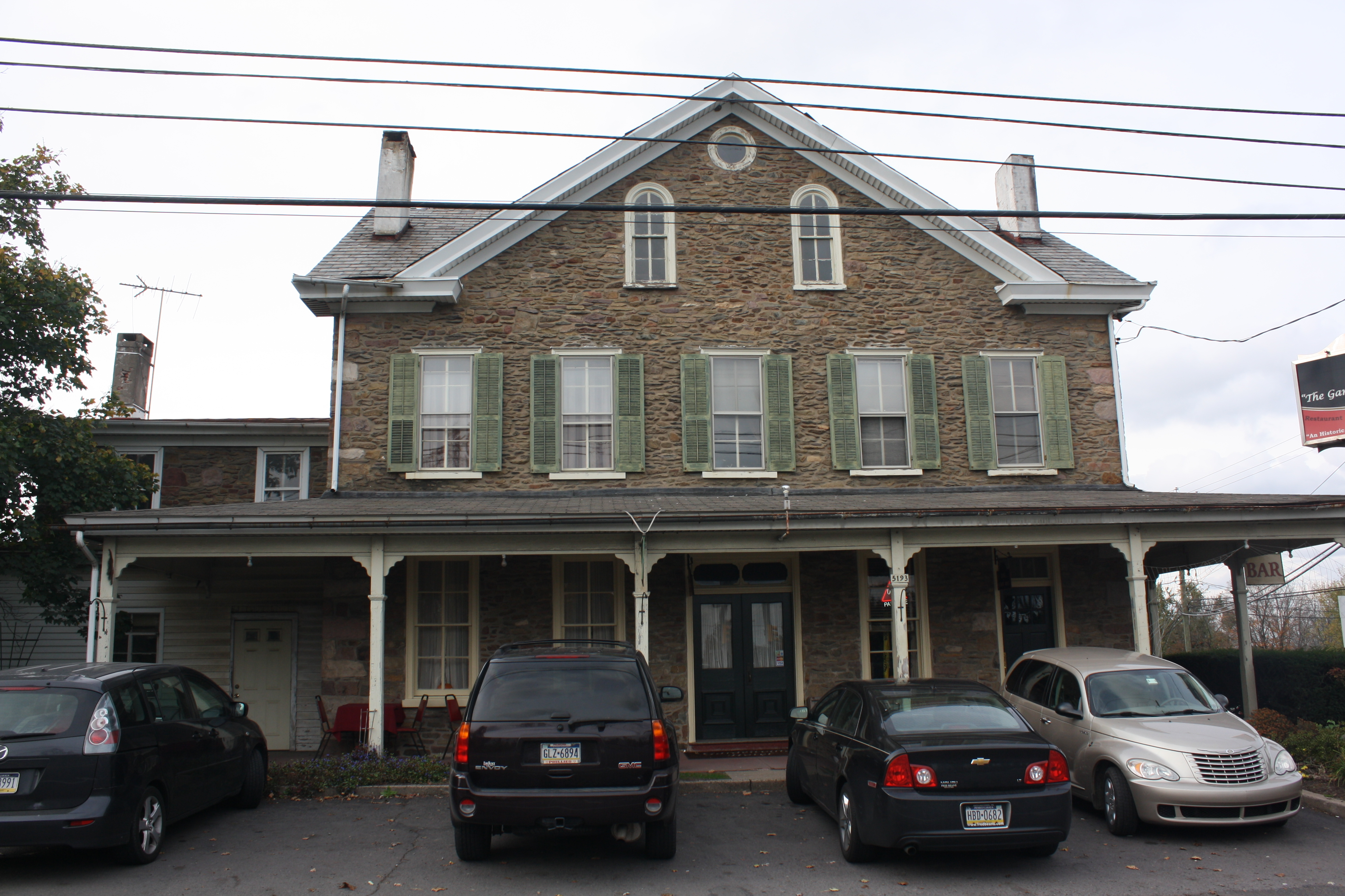 Gardenville-North Branch Rural Historic District is a national historic district located at Gardenville, Plumstead Township, Bucks County. Object location40° 22′ 35.04″ N, 75° 06′ 56.88″ W